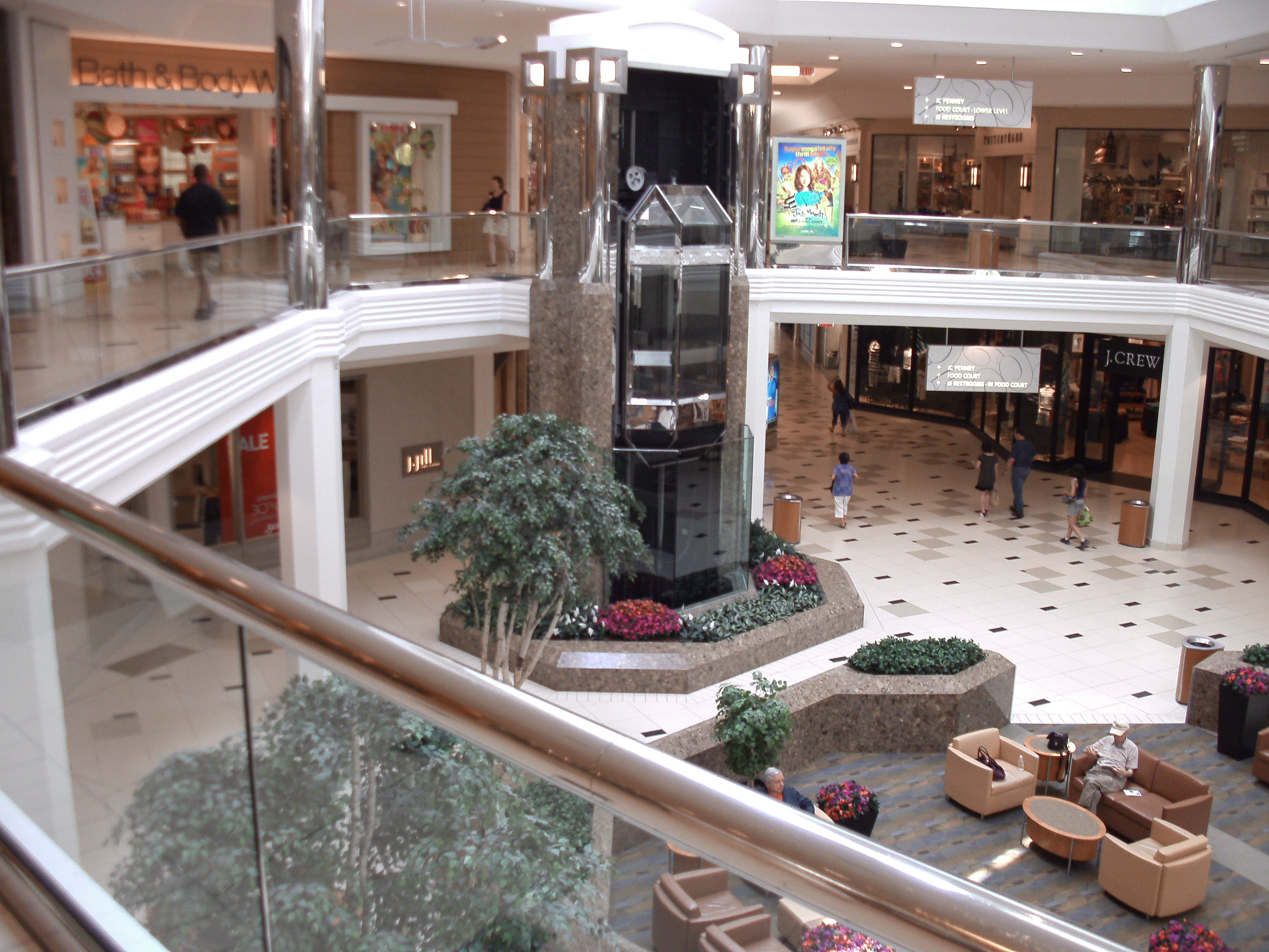 Interior shot from Twelve Oaks Mall in Novi, Michigan.